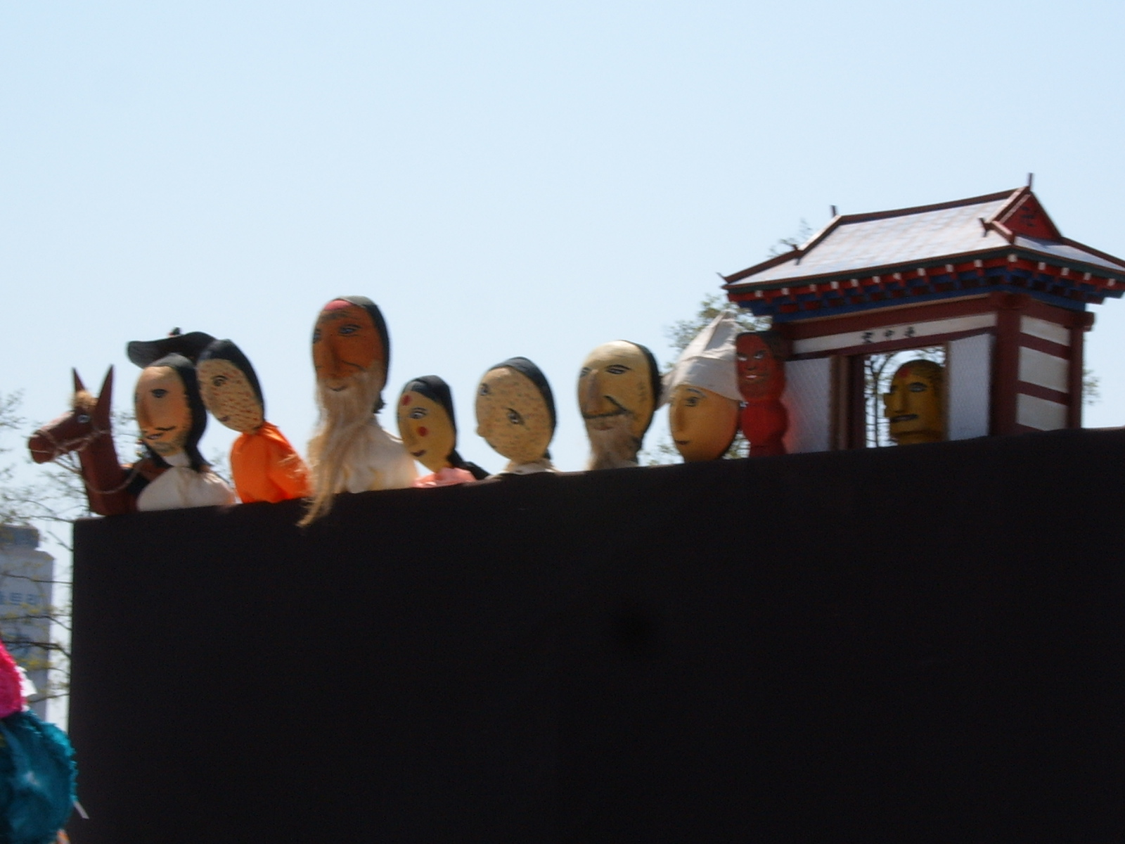 Deolmi (덜미), or called kkokdugaksi noreum (꼭두각시놀음) for Korean traditional puppetry. It was performed for Hi! Seoul Festival on April 28th 2007